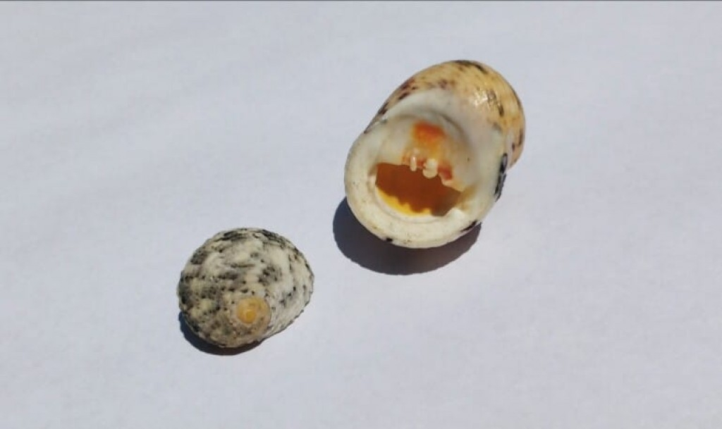 Two species of marine mollusks belonging to the genus Nerita: Nerita peloronta Linnaeus, 1758[1] from Florida to the Caribbean Sea (right) / Nerita histrio Linnaeus, 1758[2] from Indo-Pacific (left).